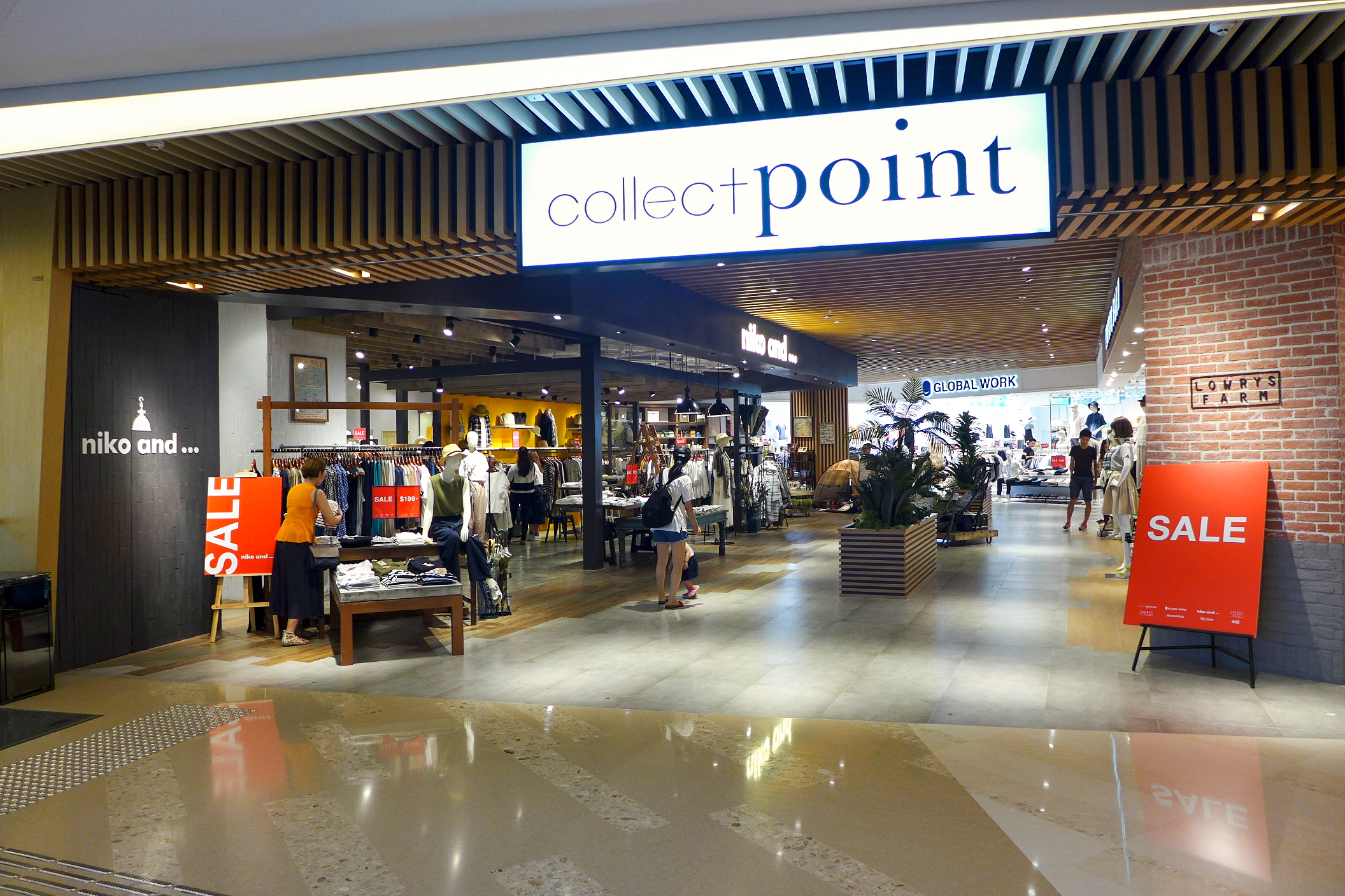 Collect Point in Hong Kong YOHO Mall